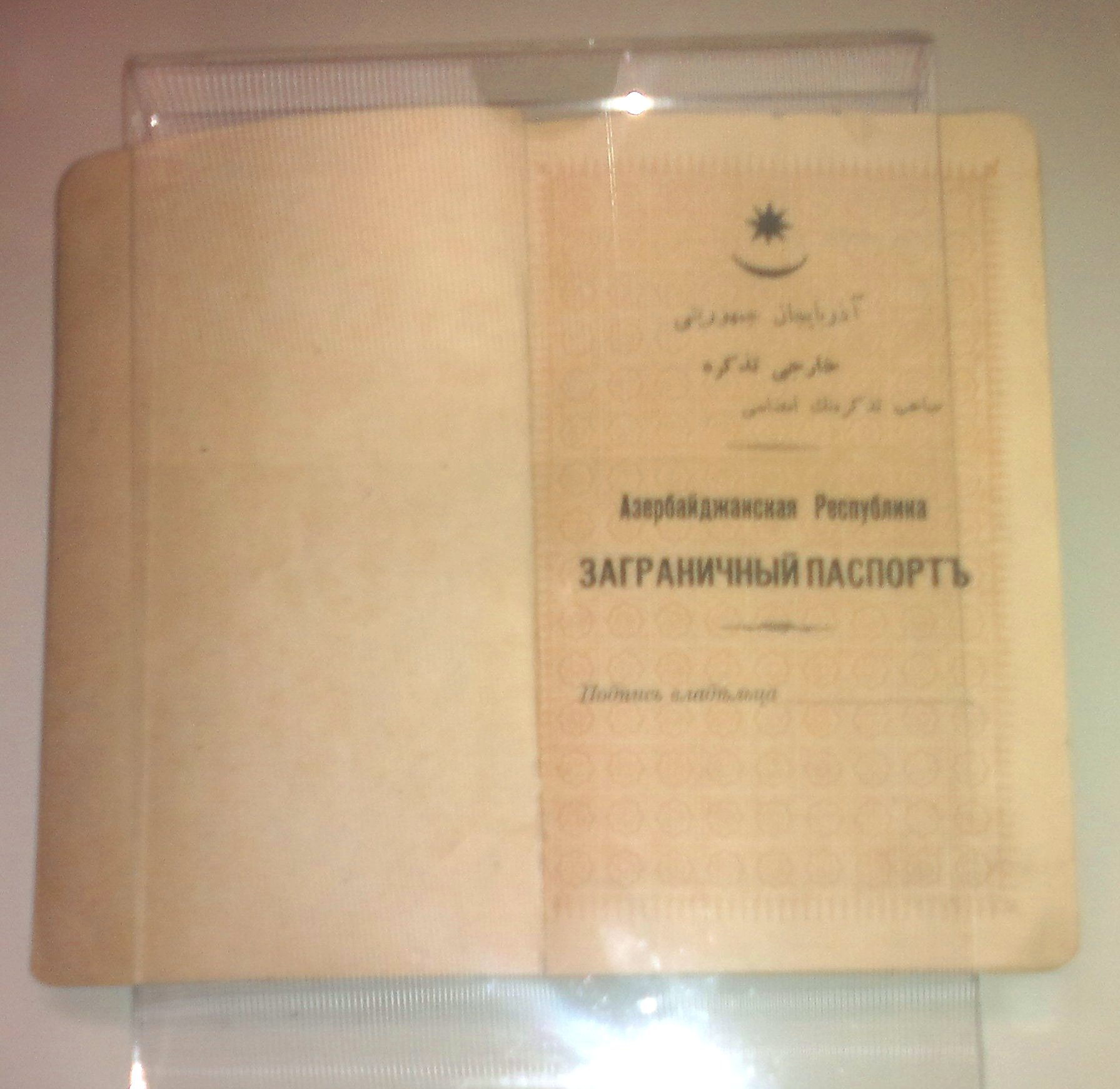 Intrenational passport of Azerbaijan Democratic Republic. Museum of History of Azerbaijan, Baku.